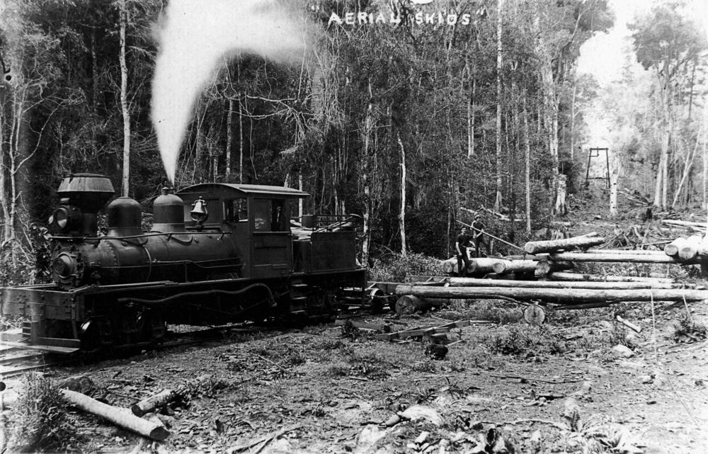 Canungra Pine Creek Tramway in dense timber region, ca. 1914 Inscription on postcard reads:'Aerial Skids' . An aerial ropeway ordered in 1912 from the USA was installed from the end of a spur on Beechmont Range to take logs down 1,000 feet to the skids at the end of the Little Flying Fox Creek branch of a tramway line. Later it was found uneconomical and was dismantled and stored at Ipswich. The aerial ropeway was later replaced by a road in 1918.(Description supplied with photograph.).